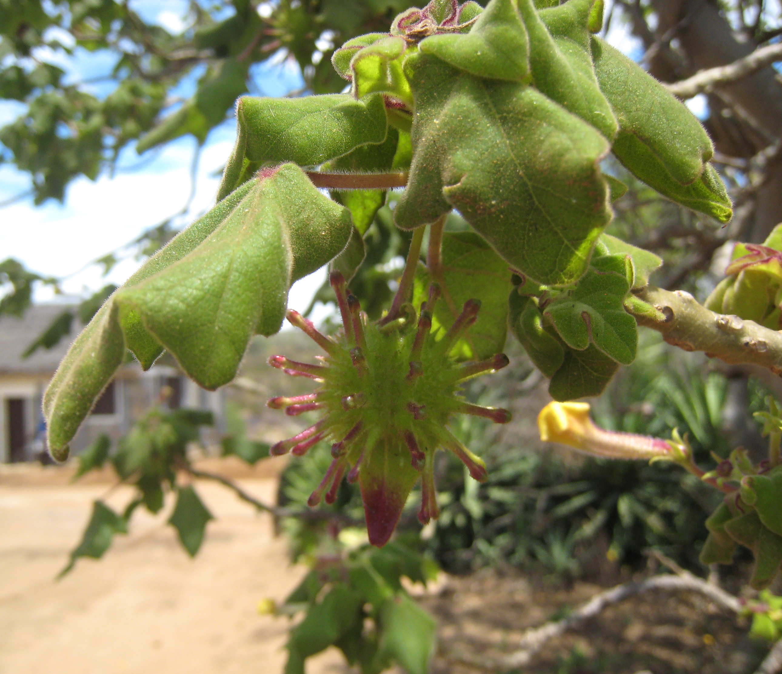 Seed pod of Uncarina roeoesliana at Androhahela National Park in Madagascar